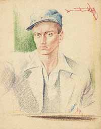 pencil and pastel sketches drawn by Brian Stonehouse during the Second World War